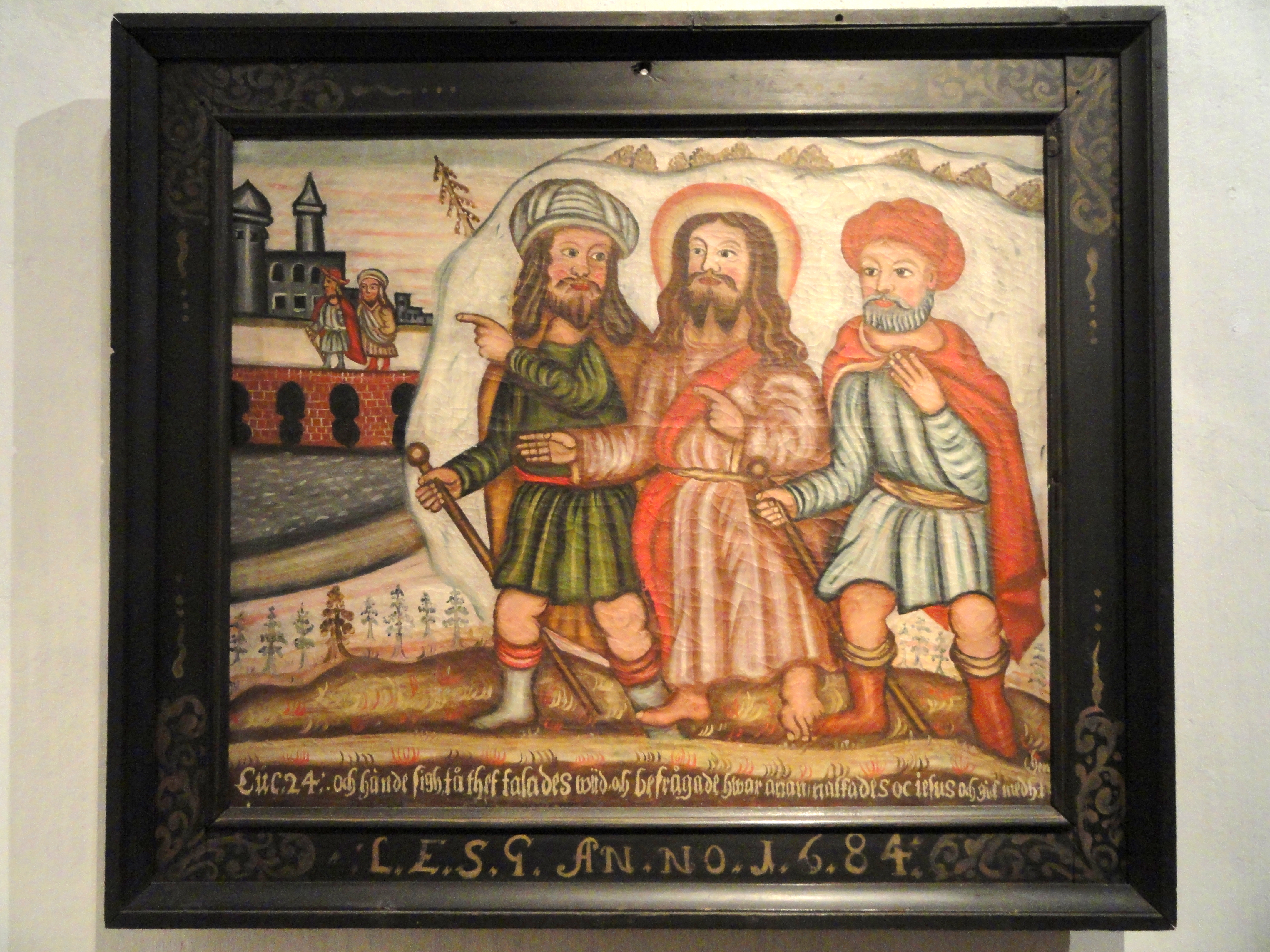 Exhibit in the Lutheran ecclesiastical art collection, National Museum of Finland, Helsinki, Finland. Artwork is in the public domain because the artist(s) died more than 70 years ago.